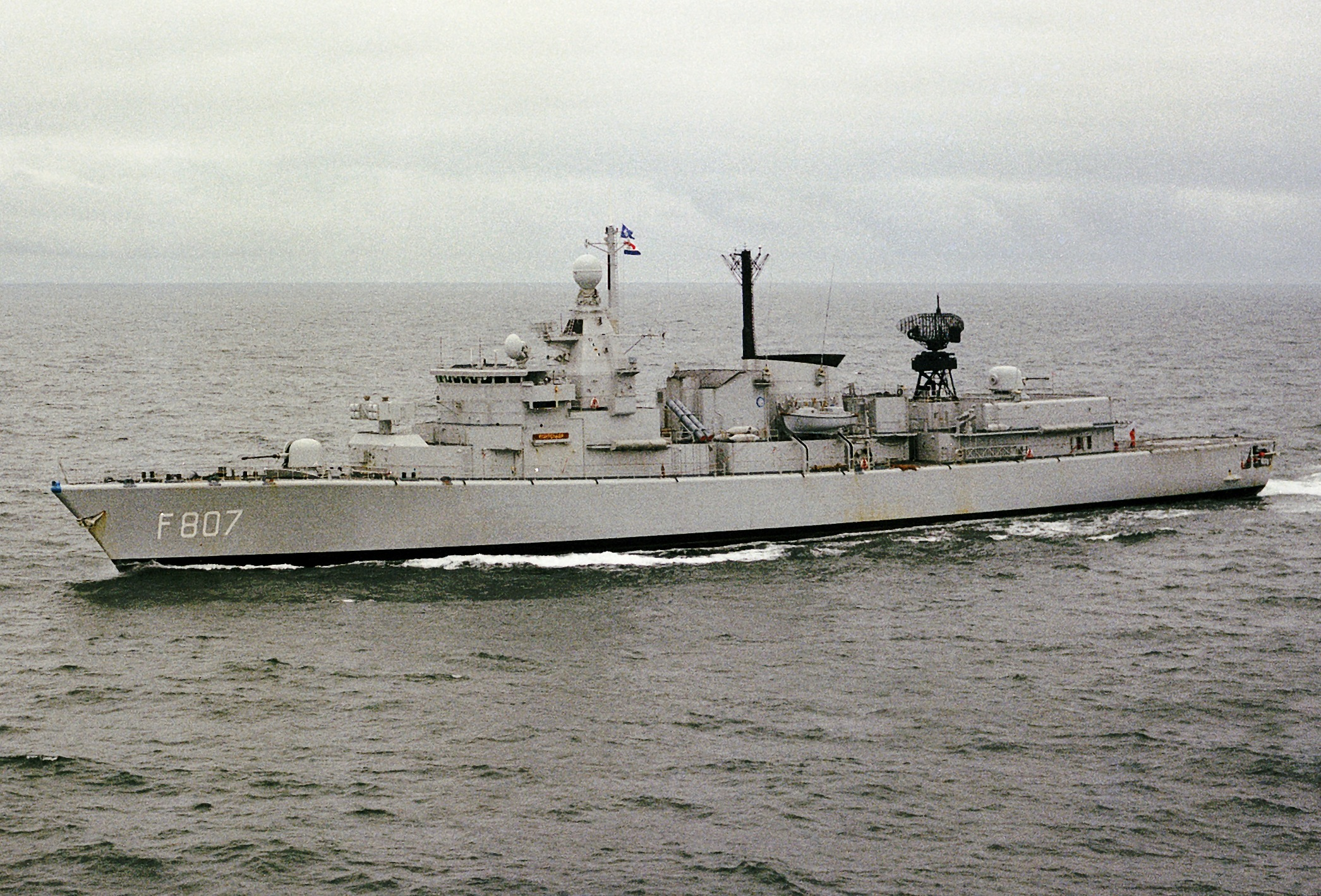 A port bow view of the Netherlands frigate HrMs Kortenaer (F 807) underway.